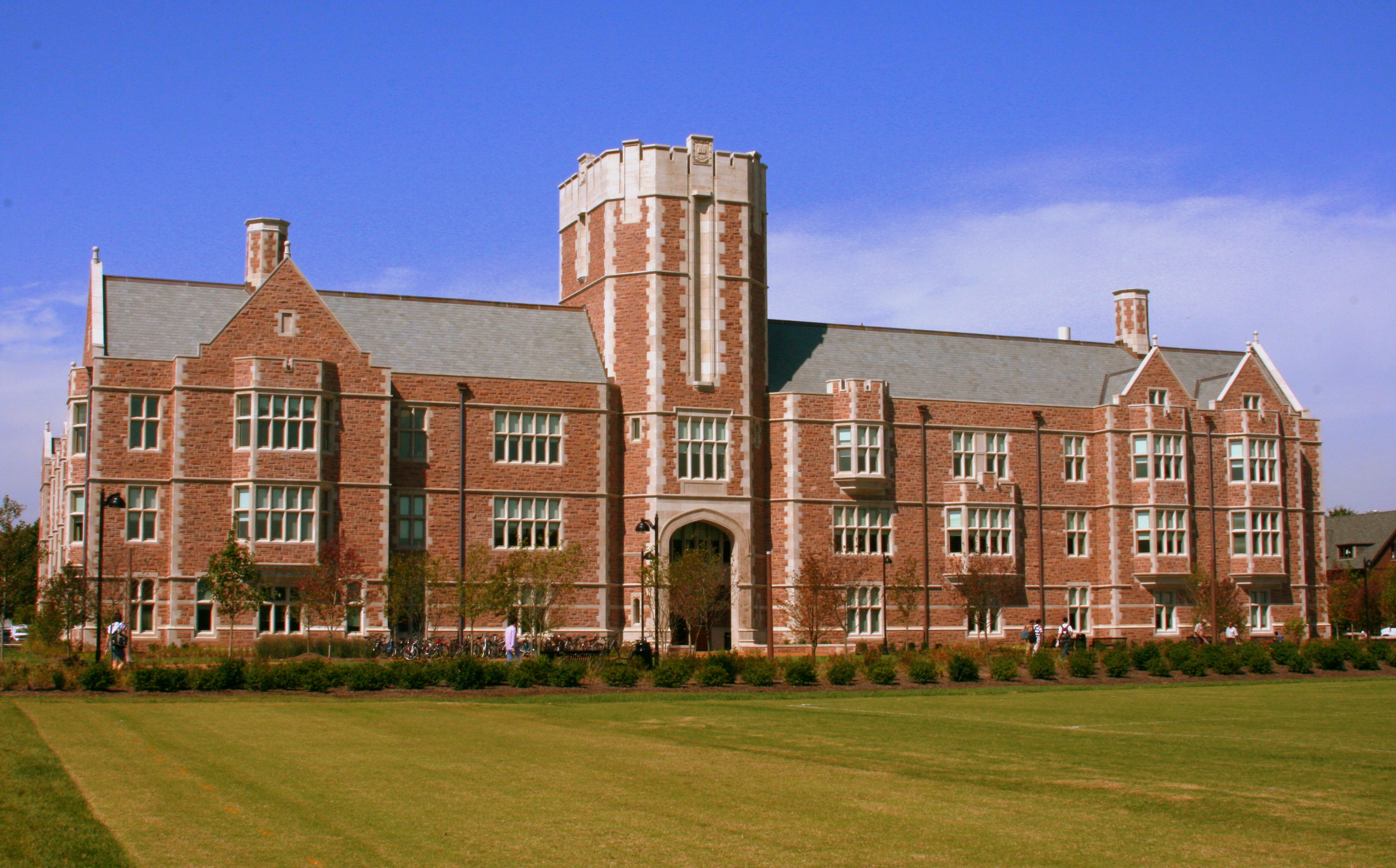 The new Seigle Hall building at Washington University. This building houses classes and office space for the the Arts and Sciences departments of economics, education and political sciences.